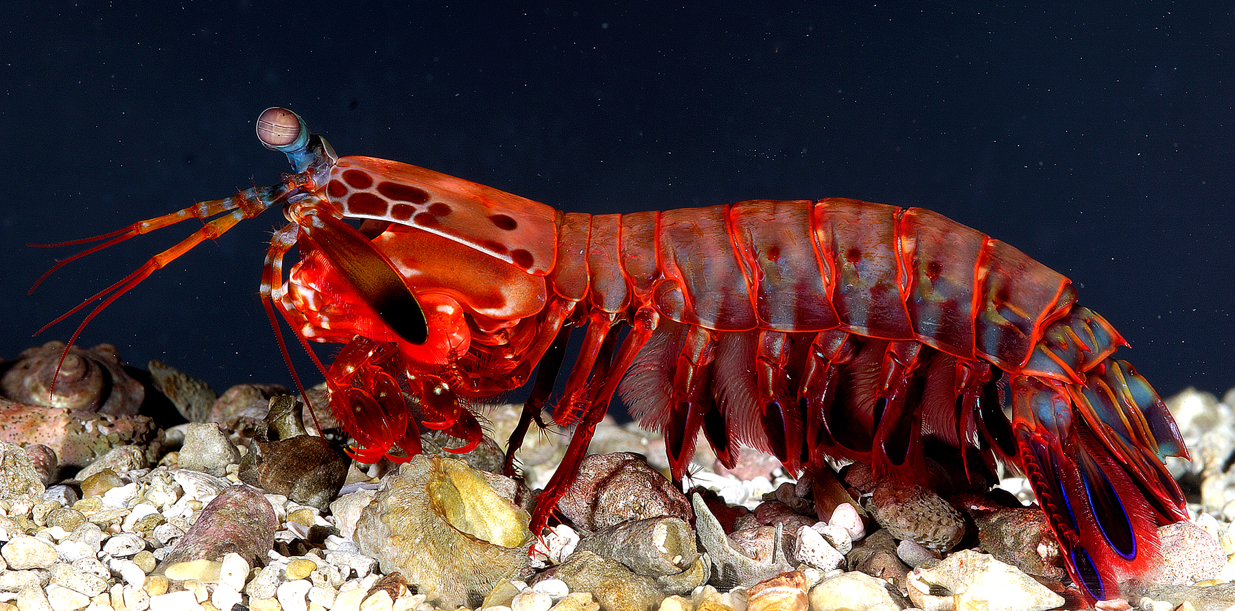 A photograph of A female Odontodactylus Scyllarus mantis shrimp. Mantis shrimp or stomatopods are an ancient group of marine predators that are only distantly related to other more familiar crustaceans, such as crabs, shrimp and lobsters. While most occur in shallow tropical marine waters, a few species are found in more temperate seas. Although they care called mantis shrimp, they are neither shrimp nor mantid (a species of insect), but received their name due to their resemblance to both praying mantis and shrimp. Mantis shrimp appear in a variety of colors, from shades of browns to bright neon colors.